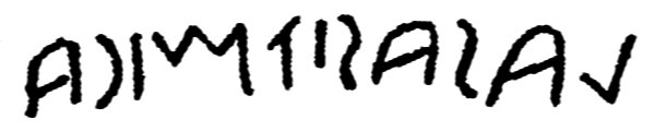 Inscription LASA SITMICA on a etruscan mirror